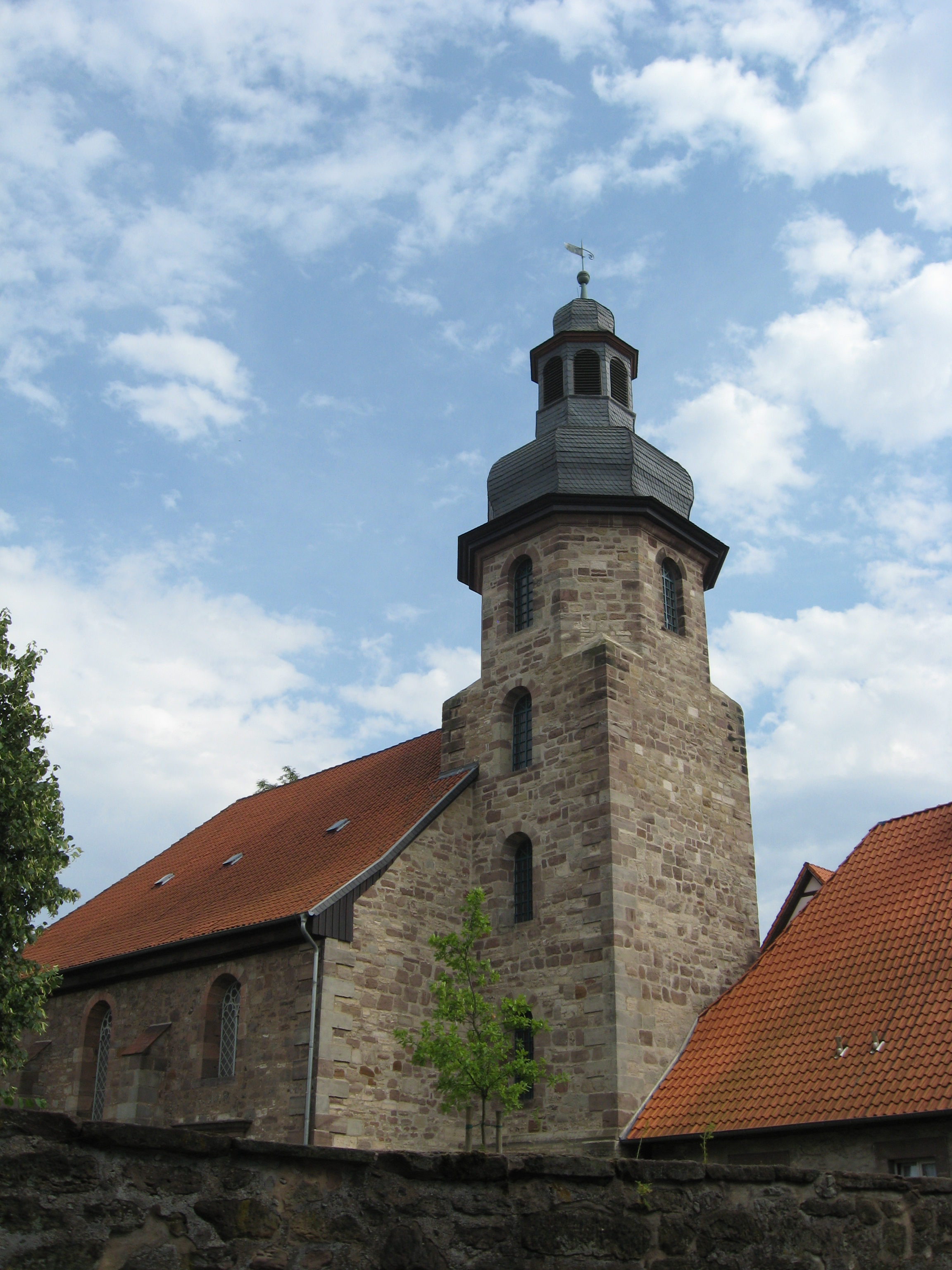 Marienstein church, Nörten-Hardenberg, Germany check usage